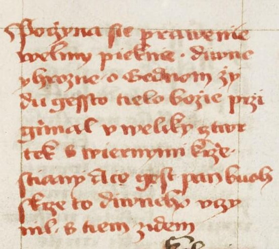 Beginning of the first of the so called Olomouc stories (Olomoucké povídky) from the 2nd half of 15 century